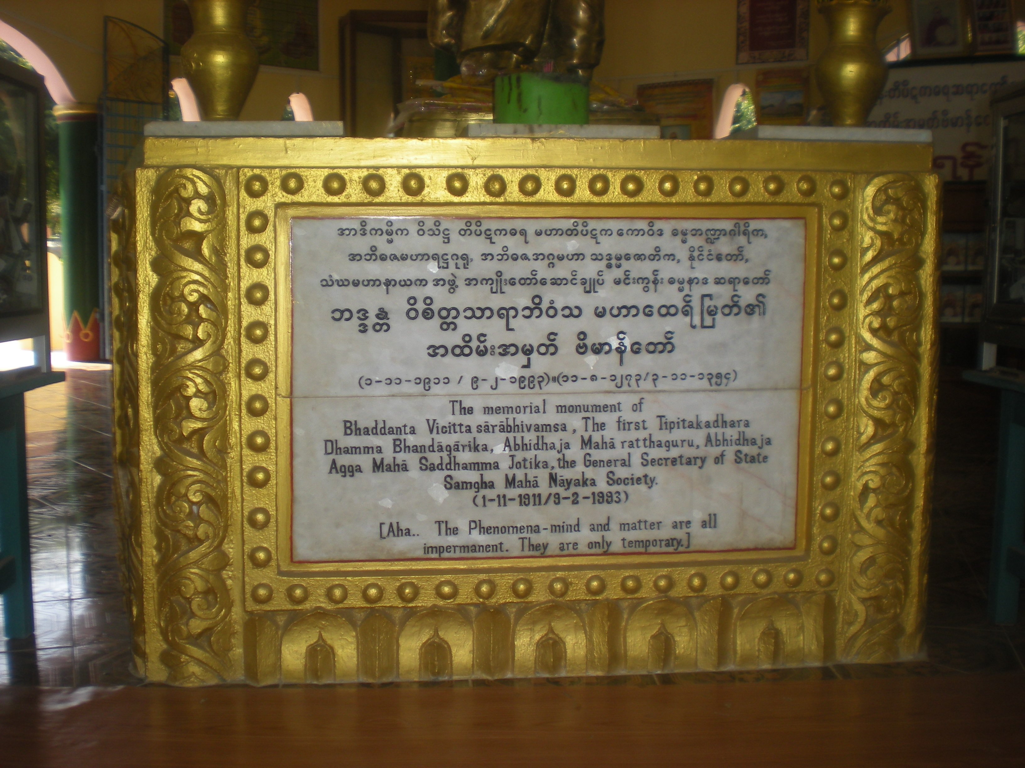 Mingun Sayadaw Momnument